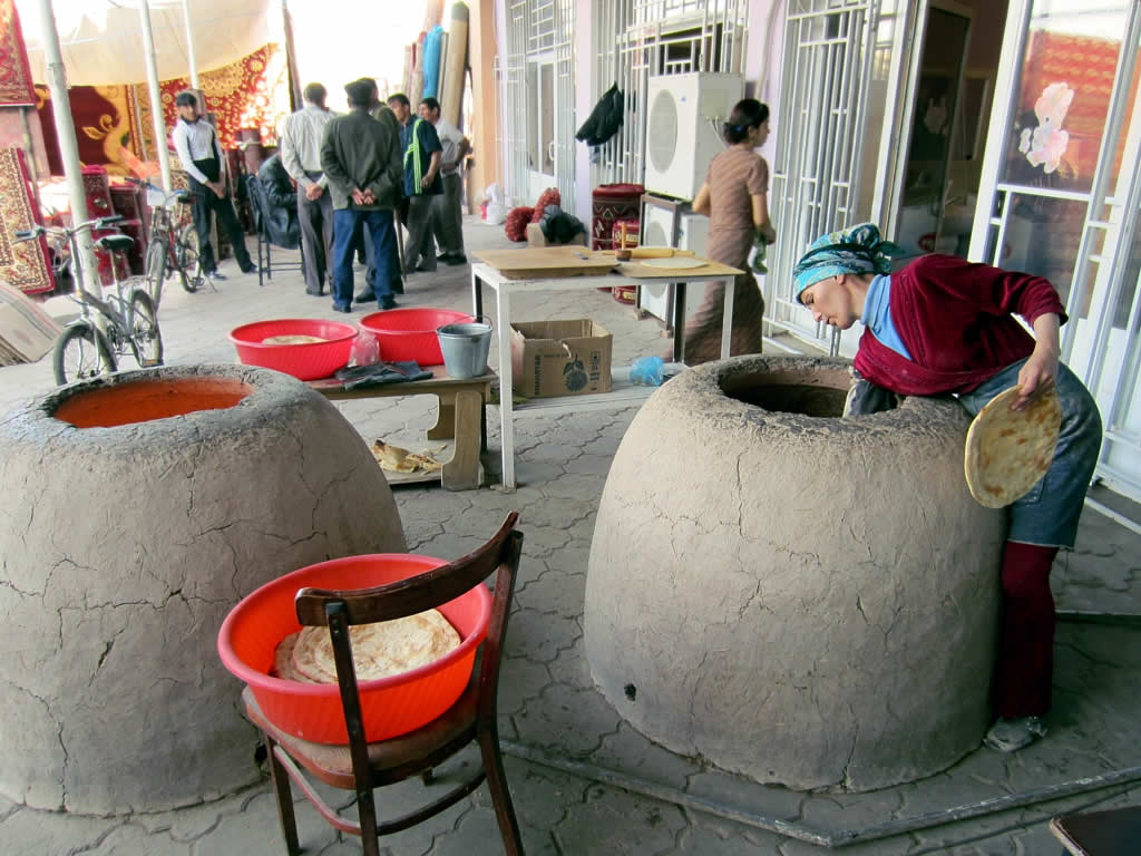 baking bread, Bai Bazaar, Dashoguz, Turkmenistan